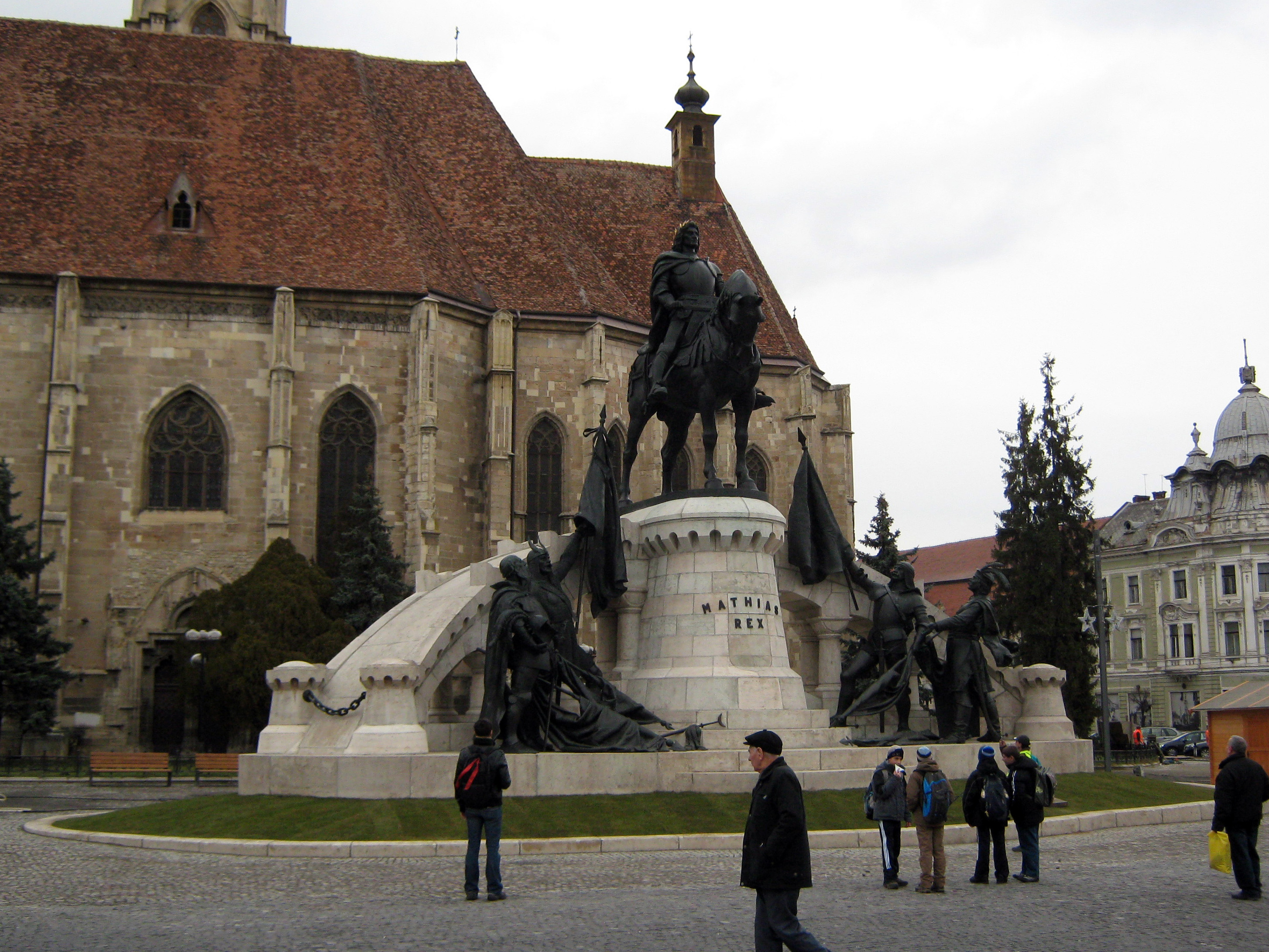 The recently restored Statue of King Matthias Corvinus in Cluj-Napoca, Romania.